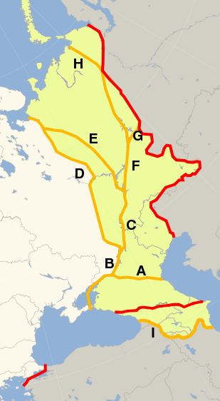 Historical conventions for the boundary between Europe and Asia, from maps published between 1700 and 1920 (note that maps from before the late 16th century cannot show a clear delineation for the northern part of the boundary, as the Arctic Ocean (Nova Zemlya, Sea of Kara etc.) was not known to cartographers). Europe Asia Territory which has historically been placed in either Europe or Asia the red line shows the modern convention following the crest of the Greater Caucasus, the Ural River, and the Urals range. This has been the mainstream convention since about 1850, illustrated by e.g. Johnson (1861). Line A shows an alternative modern convention illustrated e.g. by Beach and McMurry (1914). The convention follows the Don and Manych Rivers, placing the Russian Caucasia governorate in Asia. Other historical conventions no longer in use are illustrated as follows: line B follows the Don River until Volgograd (continued under D or C, depending on convention) line C follows the Volga from Volgograd until Samara, continued under E or F depending on convention line D follows the Don past Volgograd, cutting north overland to Archangelsk staying west of the Volga. This convention is found in the first official atlas of the Russian Empire, published in 1745. line E follows the Volga until the Samara bend, and then cuts northwest to the Northern Dvina, ending at Archangelsk. This convention is used by Christoph Weigel in his Asia Vetus map, published 1719. line F leaves the Volga at the Samara bend, cutting to the lower Irtysh and the Ob River. Used by Johann Baptist Homann in his Recentissima Asiae Delineatio, published 1730. lines G and H: John Cary in his New Map of Asia (1806) follows the Don and the Volga (B, C, F), but then cuts across to the Urals south of Perm (G) and leaves the Ural watershed, reaching the coast of the Arctic Ocean west of the Yugorsky Peninsula (H)